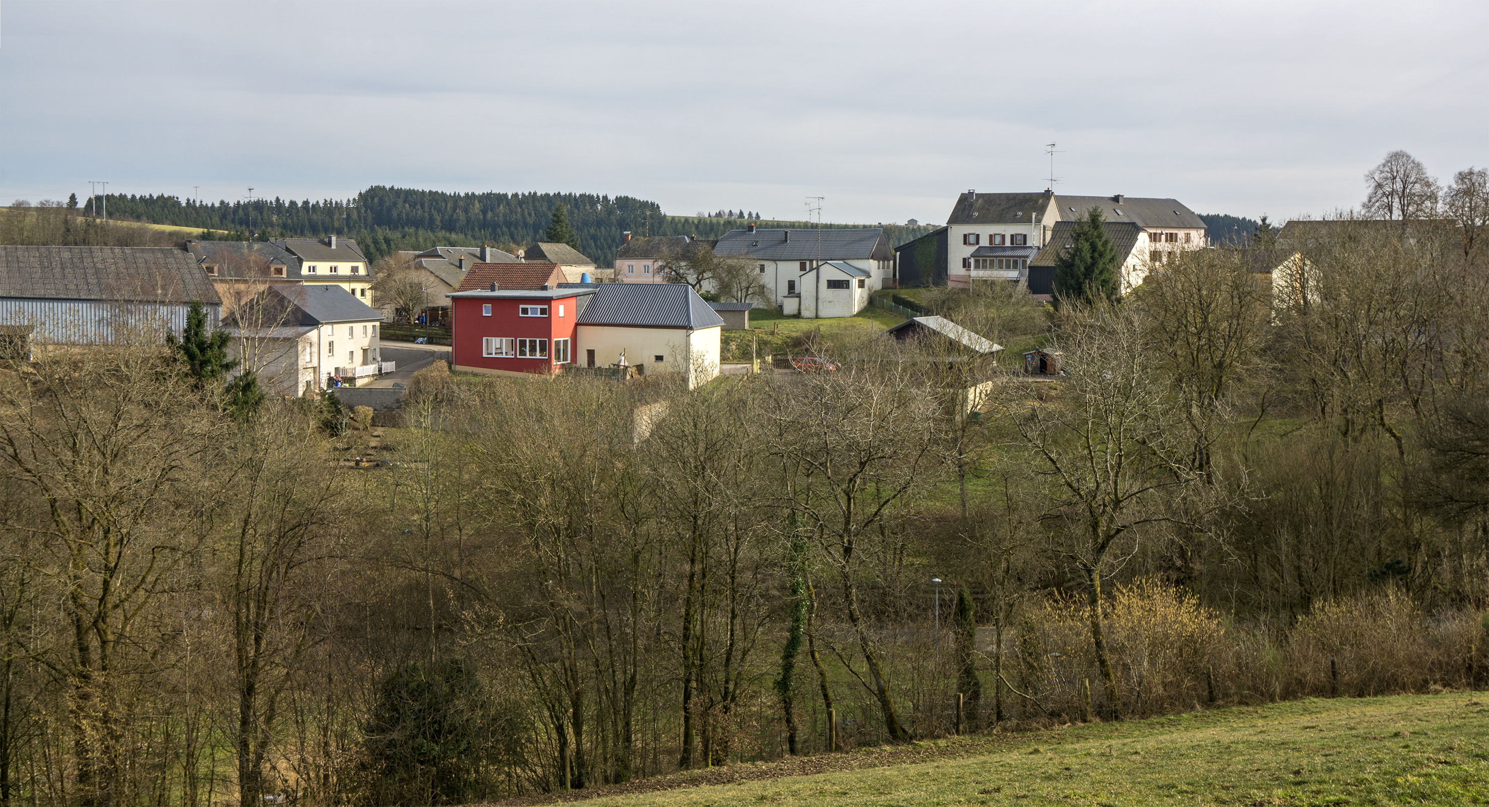 Neunhausen as seen from the cemetery